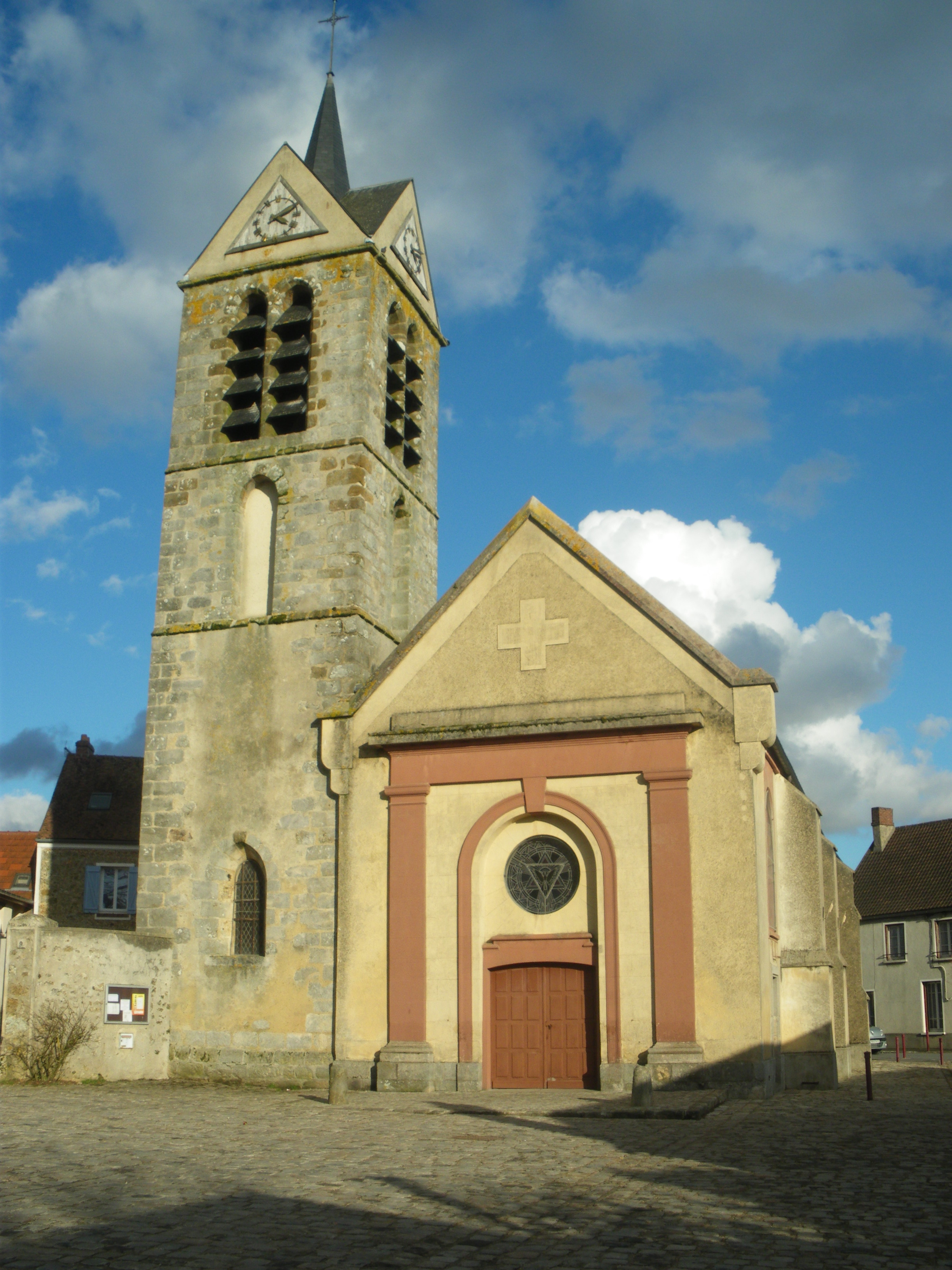 Les Molières Church, Essonne, France